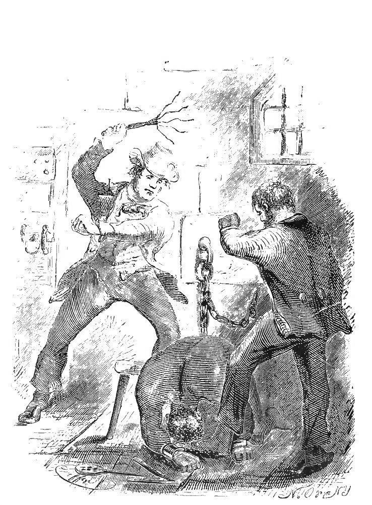 Scan from book Twelve Years a Slave